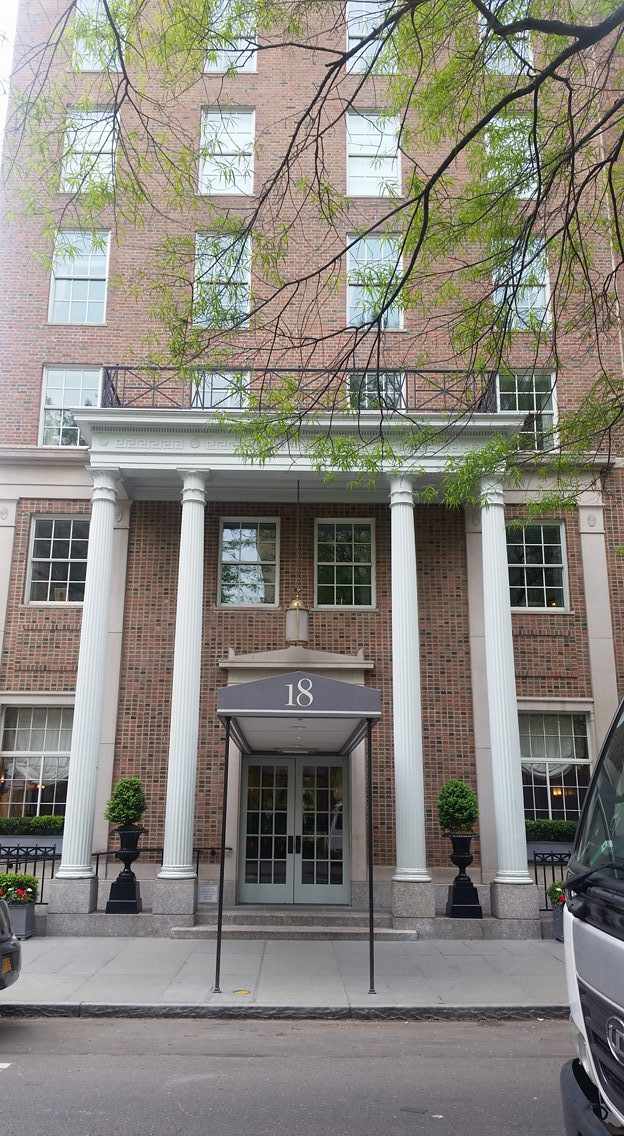 18 Gramercy Park